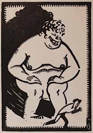 La Bêtise, signed lithography printed in L’Ami du Lettré pour 1924, Paris: G. Crès, s.d. [janvier 1924].